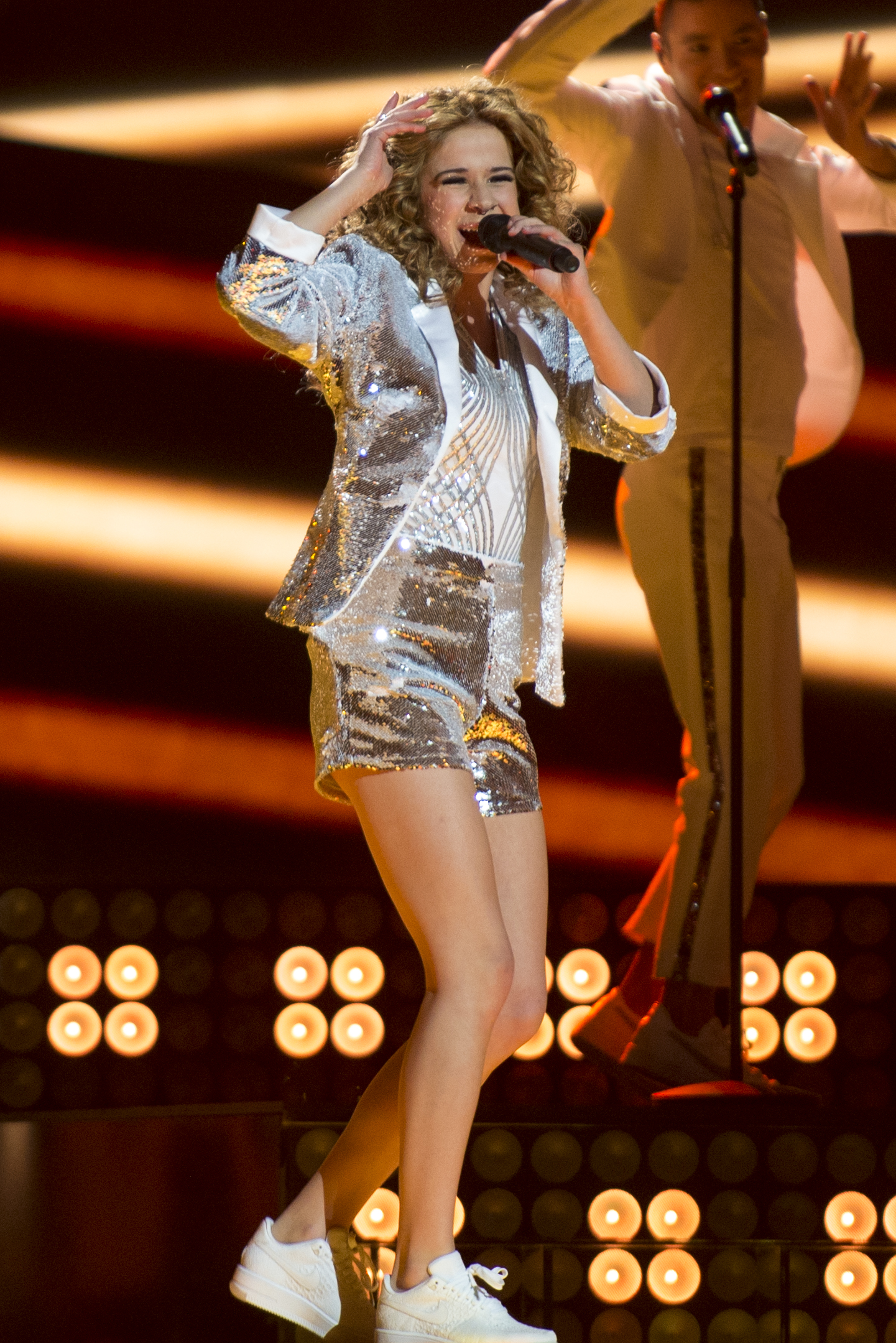 Laura Tesoro representing Belgium with the song "What's The Pressure" during a rehearsal before the second semi final of the Eurovision Song Contest 2016 in Stockholm. (Help translate this text)